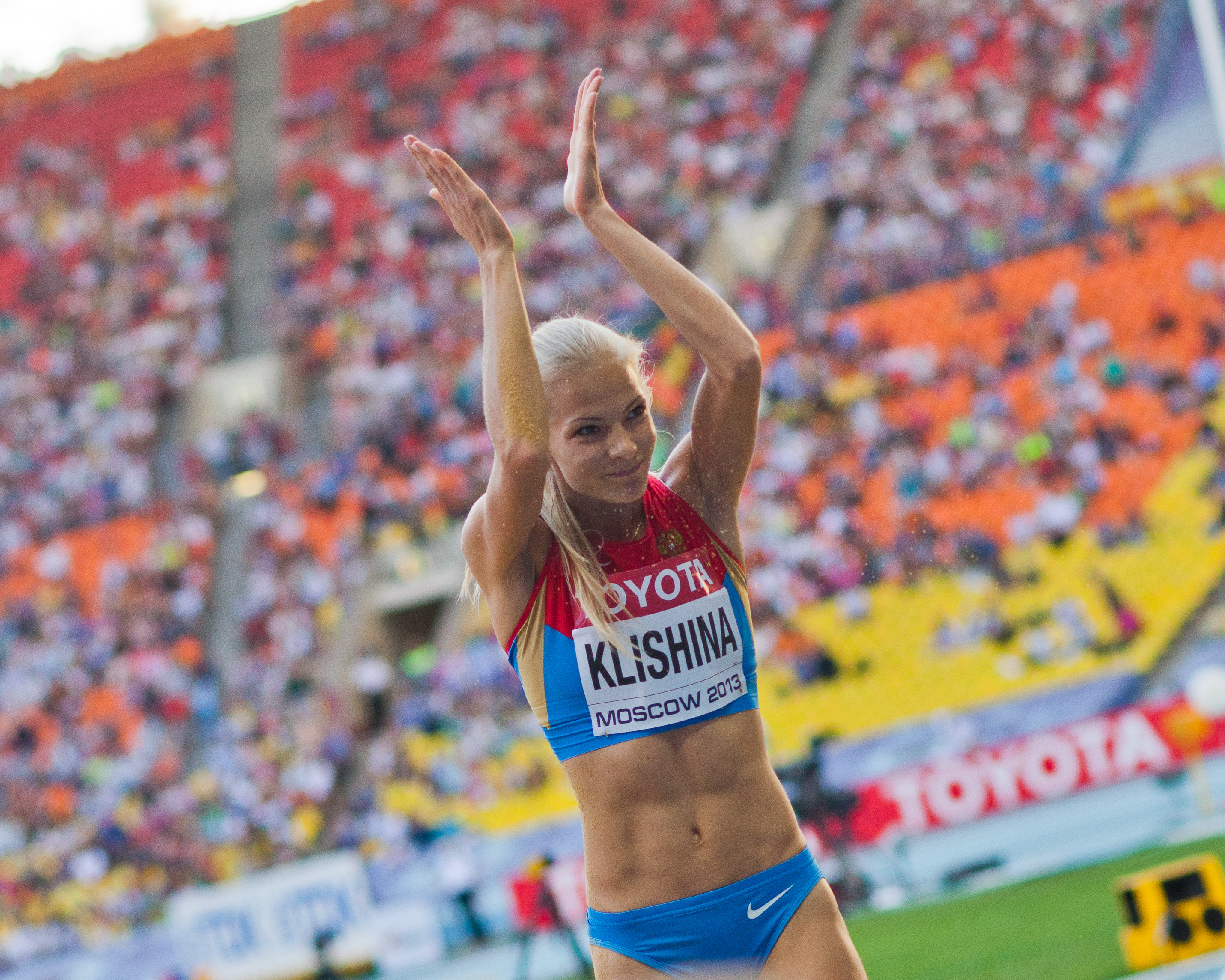 Darya Klishina during 2013 World Championships in Athletics in Moscow.